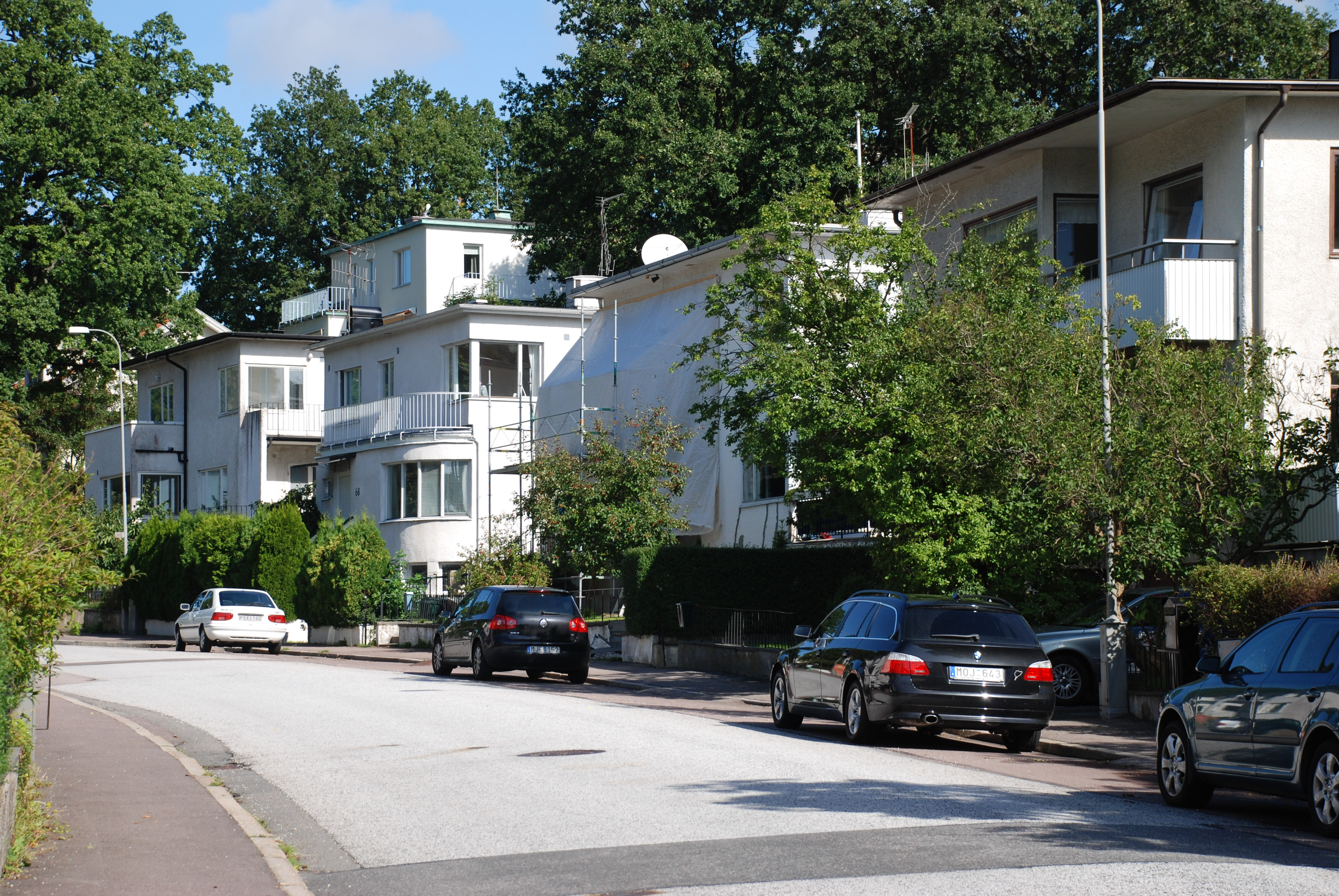 Typical buildings along Skårsgatan in Örgryte, Göteborg.